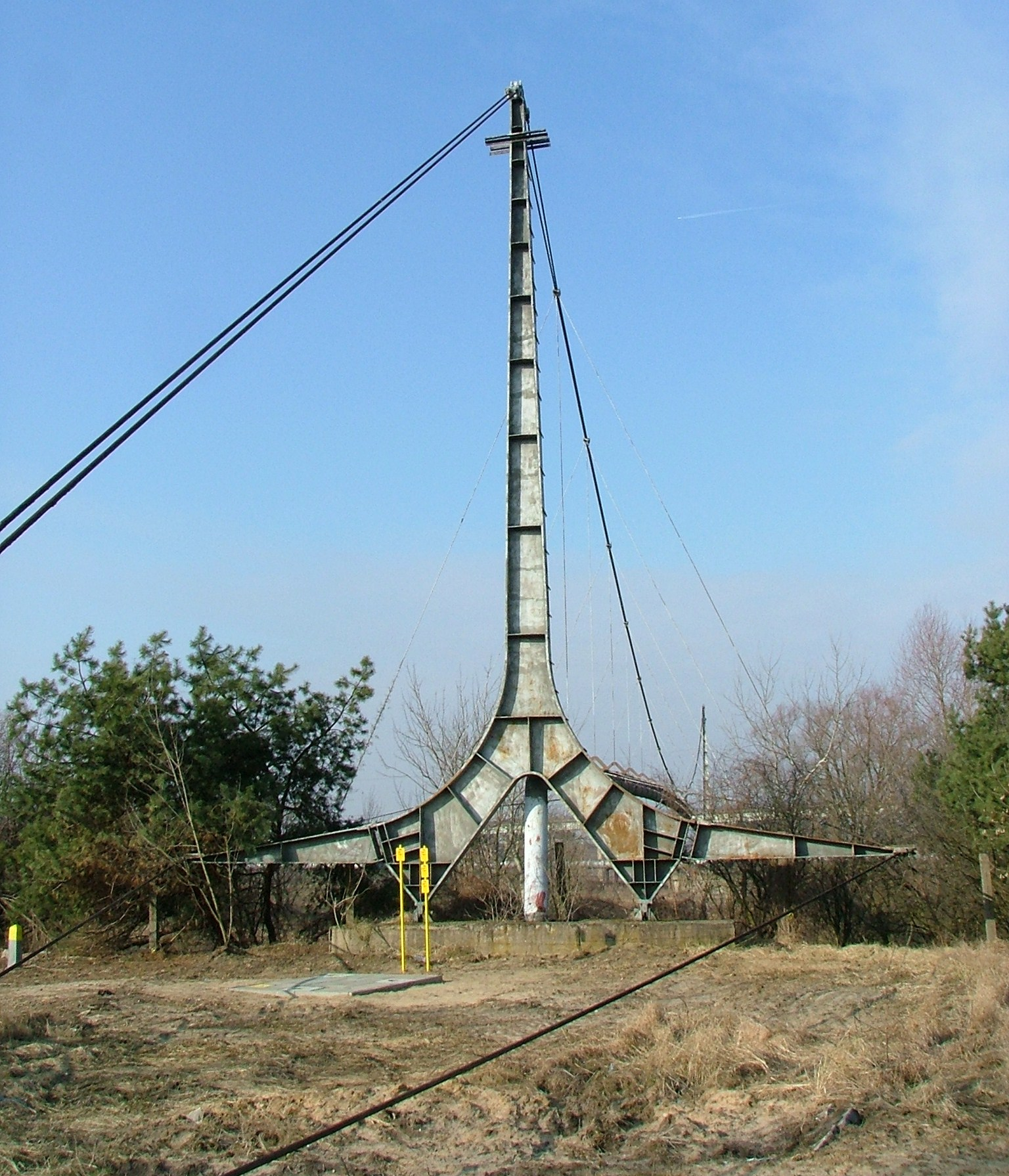 Poznan, Karolin Pipe-Bridge.